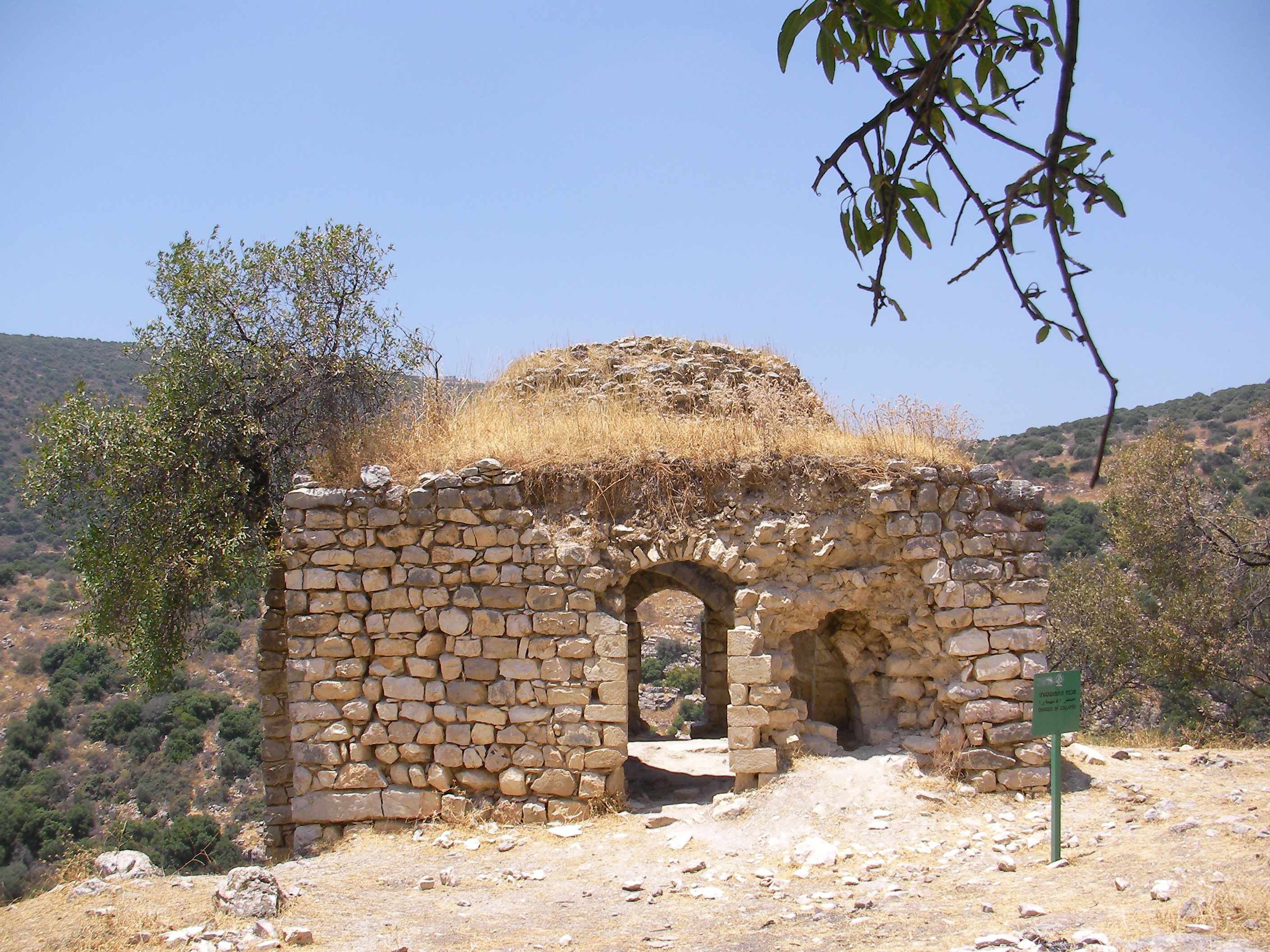 Ruin with a view